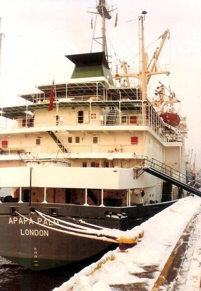 MV Apapa Palm alongside on River Elbe, Hamburg January 1981